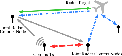 New PNG image fixing text formatting issues